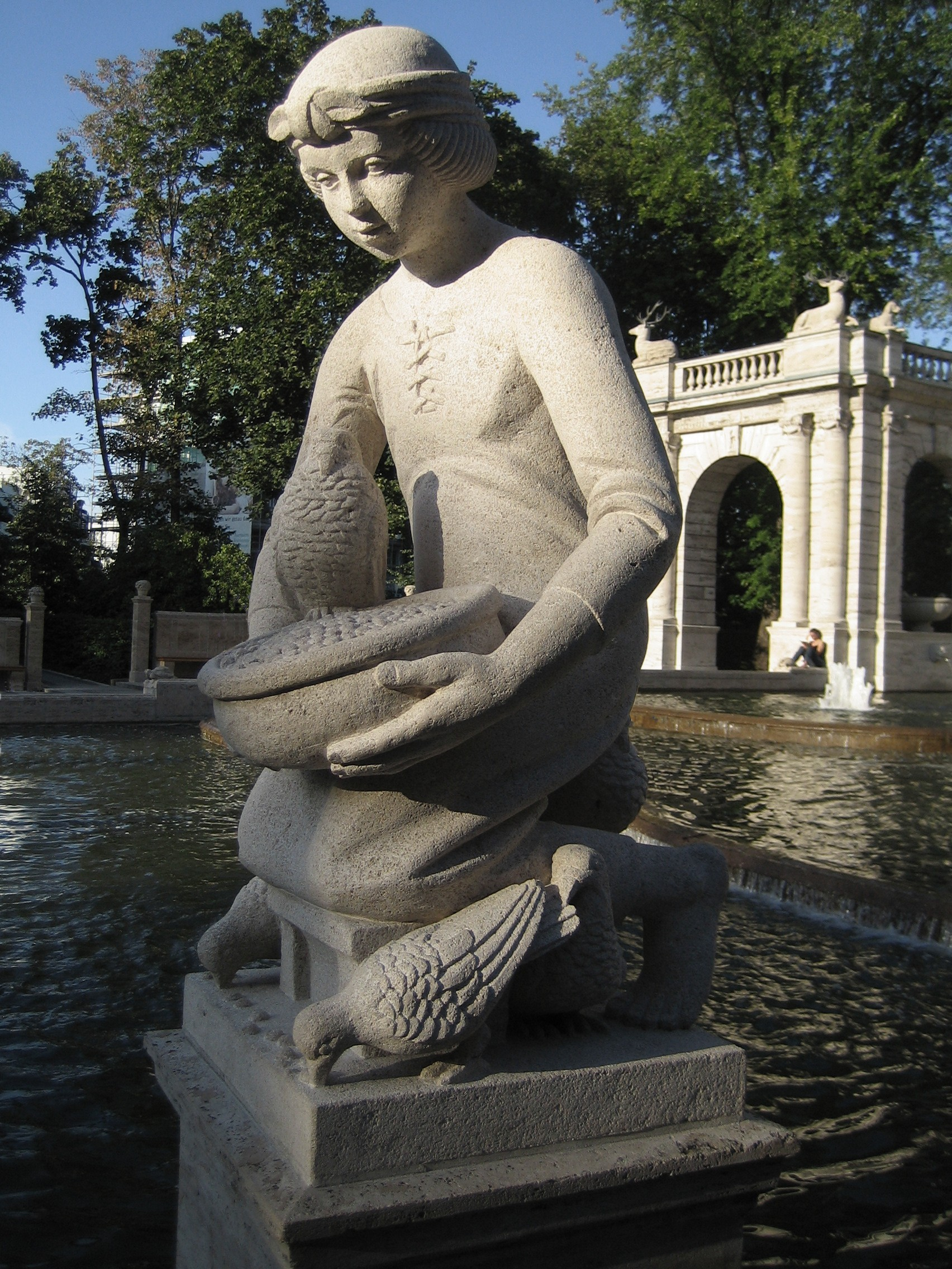 Friedrichshain locality of Berlin: Märchenbrunnen (fairy tale fountain) in the Volkspark Friedrichshain park, sculpture on the Brothers Grimm fairy tale «Cinderella» by Ignatius Taschner.